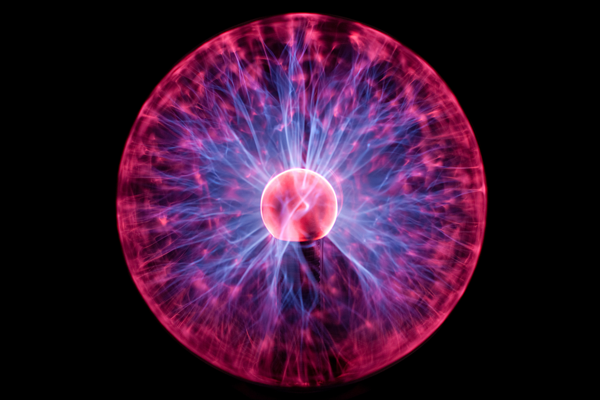 A plasma globe operating in a darkened room. Exposure time is 1.3 seconds.